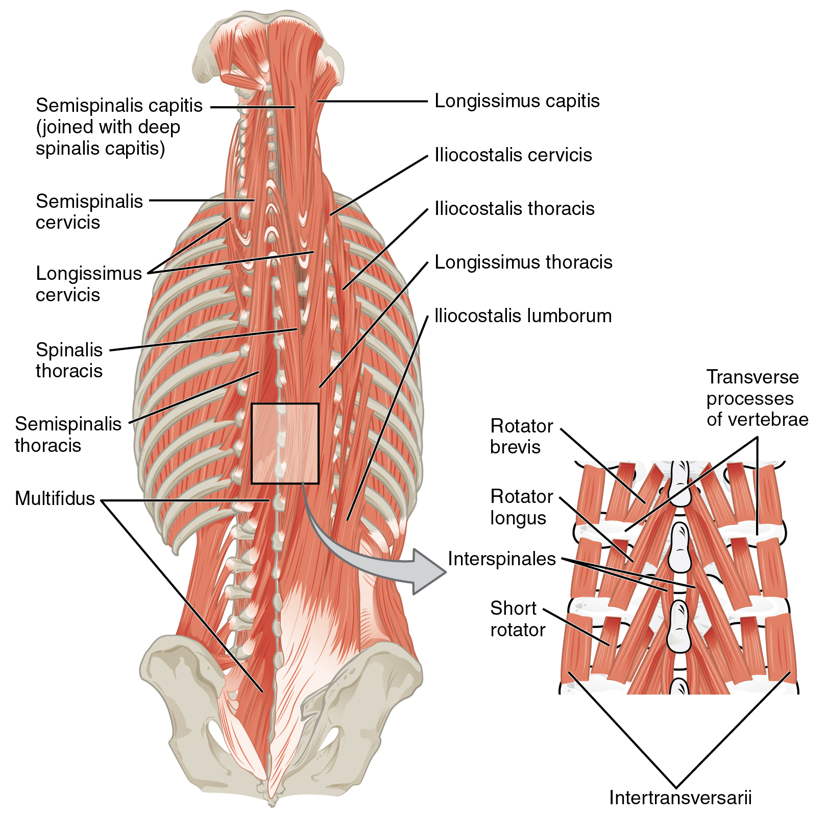 Caption: The large, complex muscles of the neck and back move the head, shoulders, and vertebral column. URL: Other versions: Original